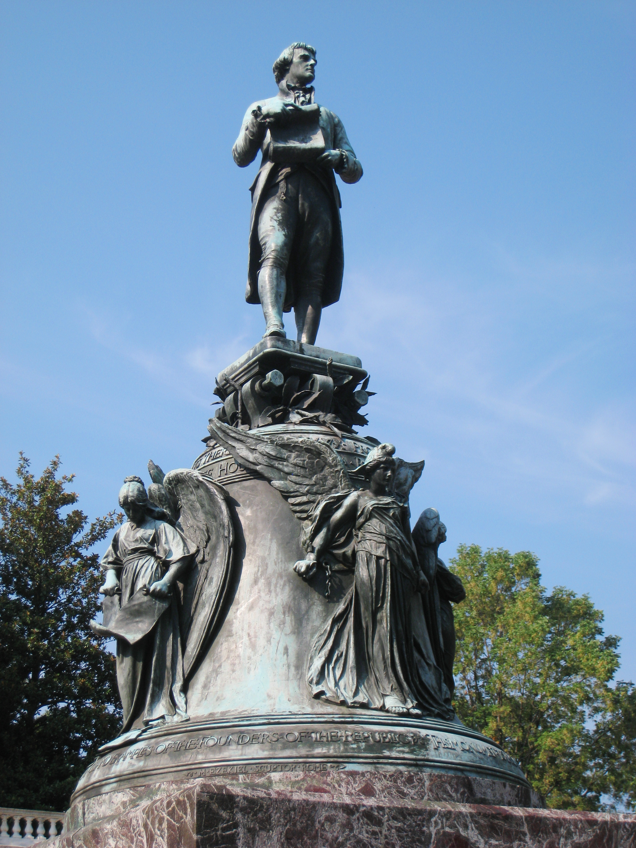 Statue of Thomas Jefferson by Moses Jacob Ezekiel (October 28, 1844, Virginia – March 27, 1917). Located beside the Rotunda, University of Virginia, Charlottesville, Virginia, USA. Statue was unveiled in May 1910, and is a smaller copy of the work created for Louisville, Kentucky, two years before. (New York Times, "Ezekiel, Sculptor, Arrives", May 25, 1910).